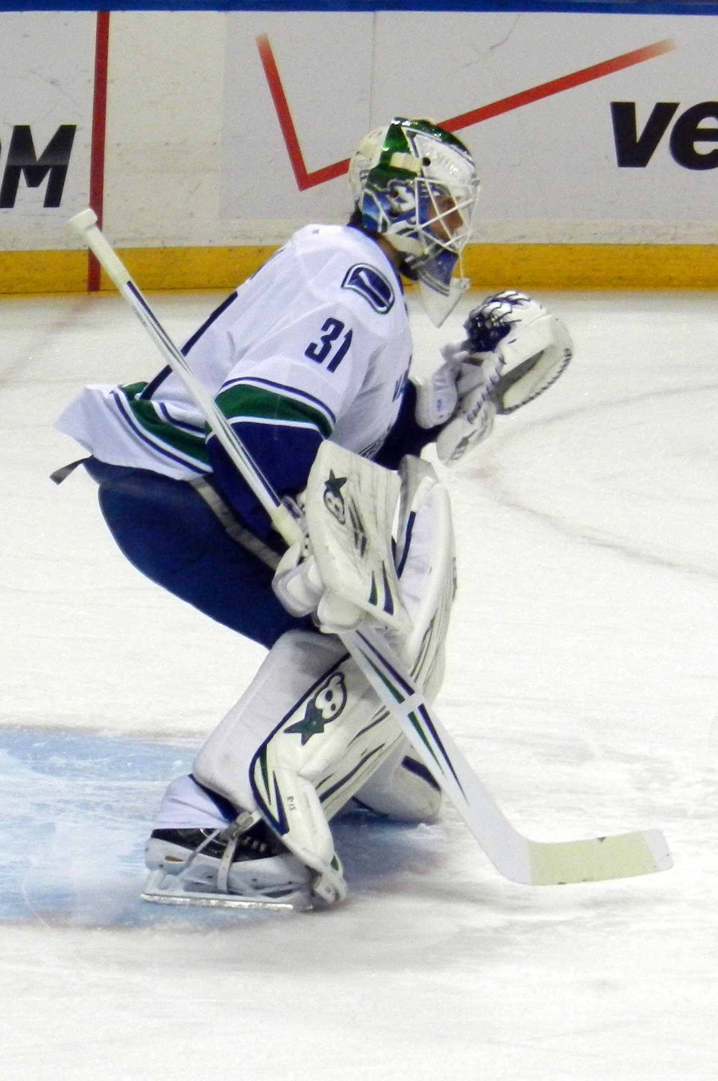 Eddie Lack during warm-ups with the Vancouver Canucks during the 2013-14 NHL season